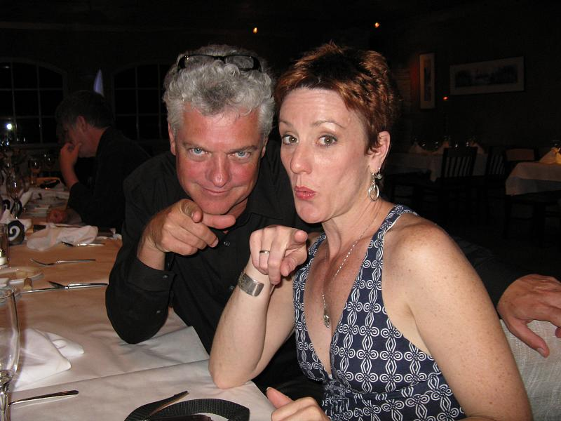 concert featuring one-act operas commissioned by the new york festival of song by the composers john musto and william bolcom.